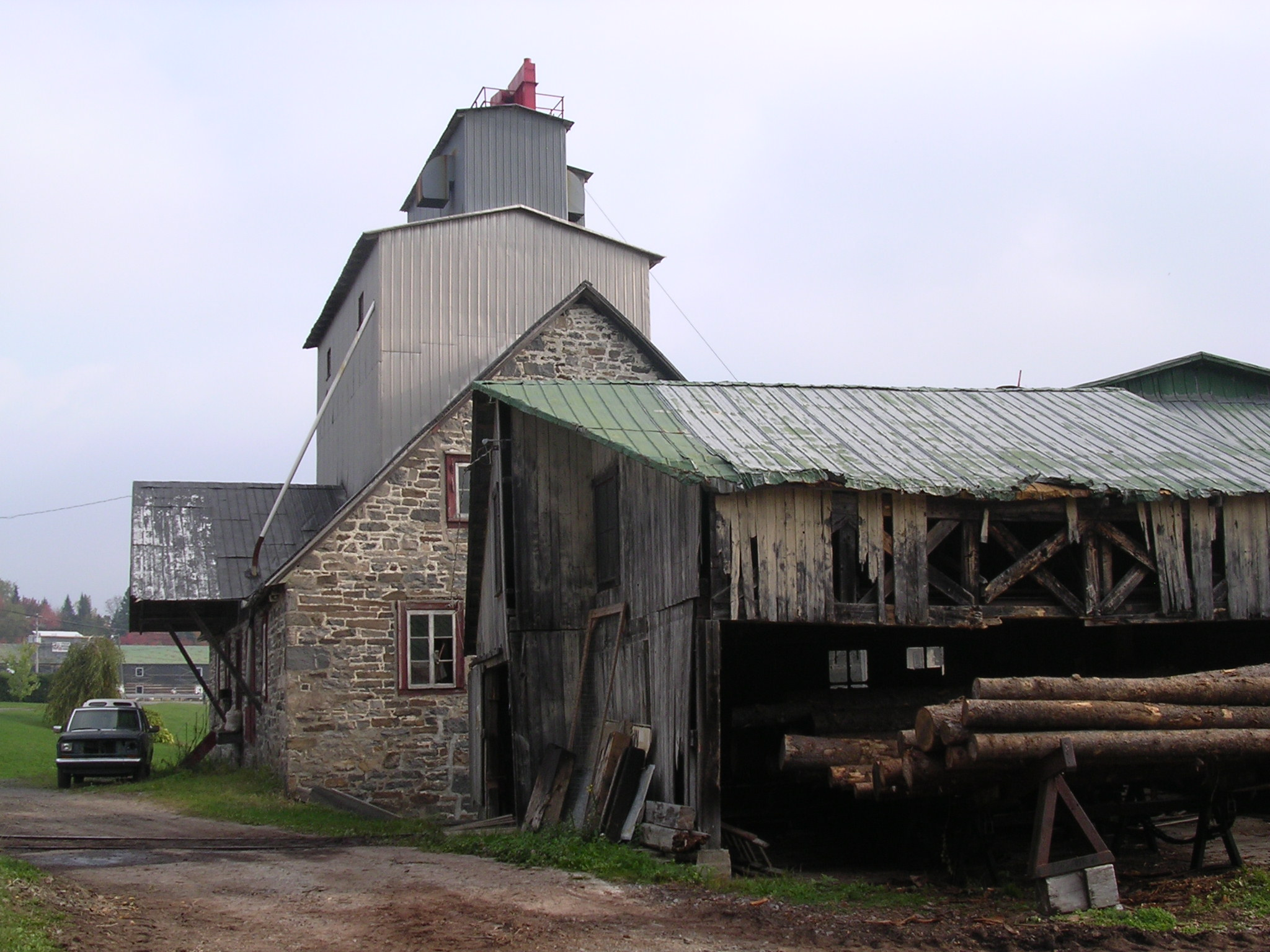 2=Goulet mill, situated on the Rivière des Envies in Saint-Stanislas (Mauricie, Quebec). Watermill; flour mill; milling; sawmill.